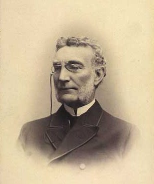 Ferdinand Vilhelm Weghorst Lüders (1827-1895), Danish engineer and director of the Port of Copenhagen